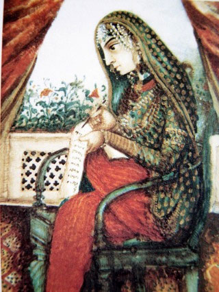 Chand Kaur, Maharani of Sikh Empire.